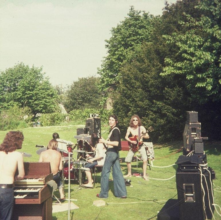 Band performance outdoors